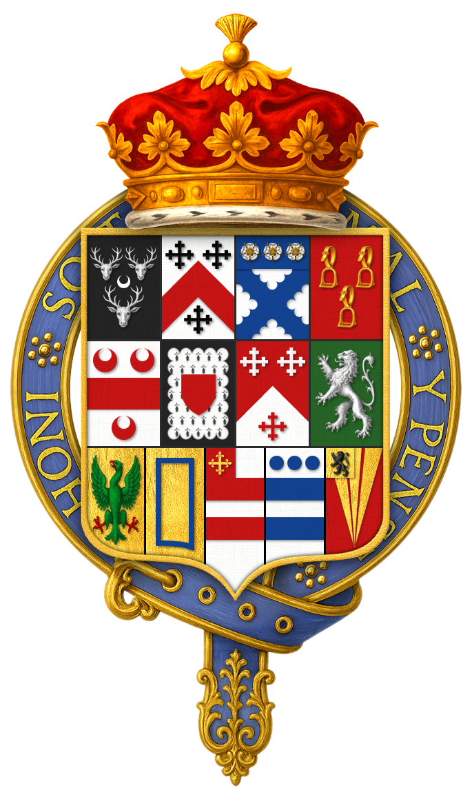 Coat of arms of William Cavendish, 1st Duke of Newcastle upon Tyne, KG, PC